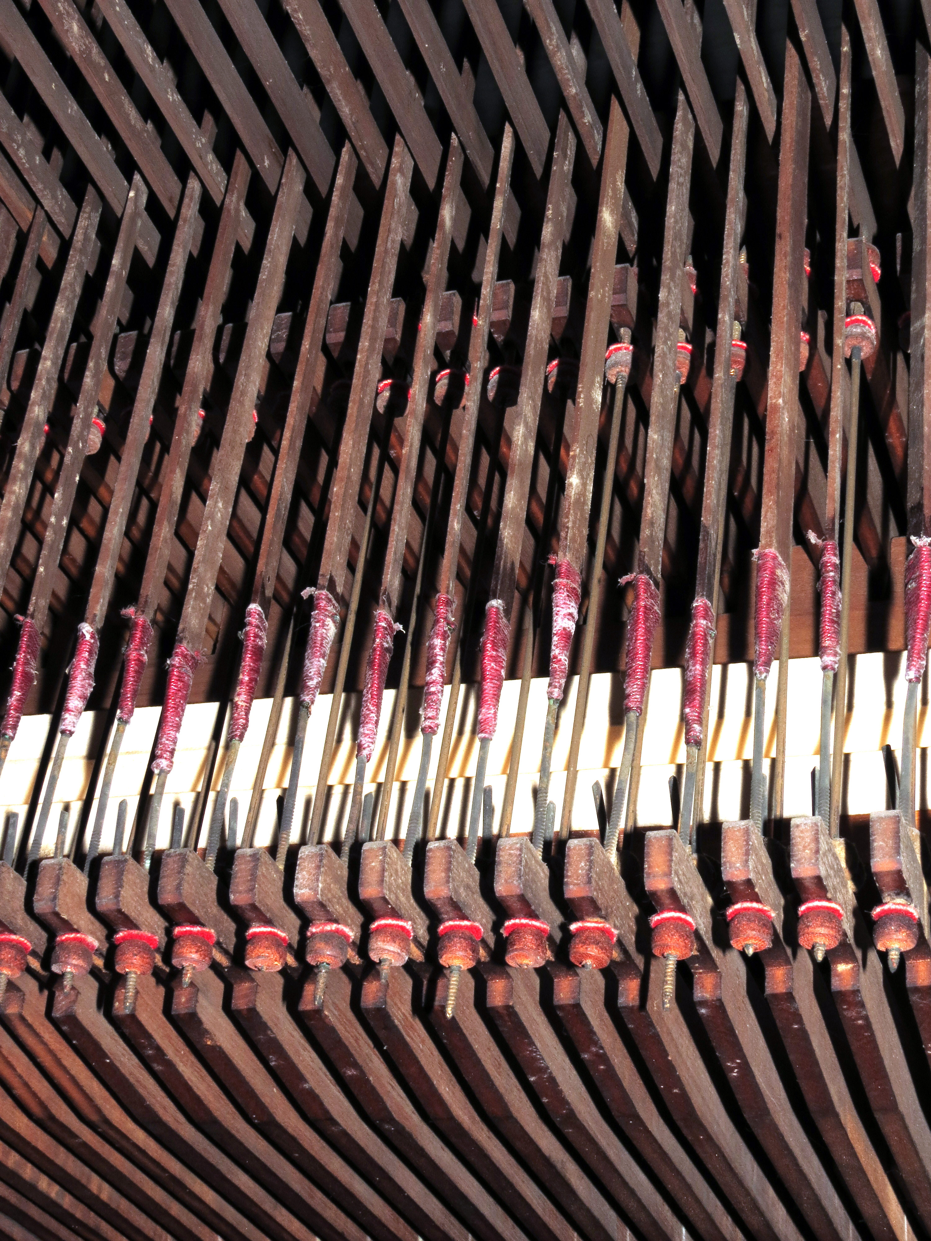 Part of the tracker action for the great organ, sowing where the trackers engage the levers from the keys of the keyboard. Adjustment for regulation may be seen on the trackers, while at the top of the picture are the trackers for the swell organ.